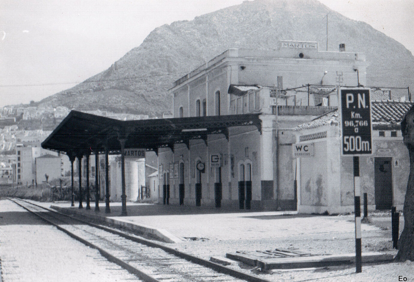 Former railway station of Martos, Jaén (Spain).